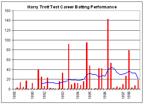 Test batting chart of Harry Trott. Red columns are the runs in the innings. Blue dots indicate not outs. Blue line is average in the last ten innings. Thanks to Raven4x4x for providing the template.